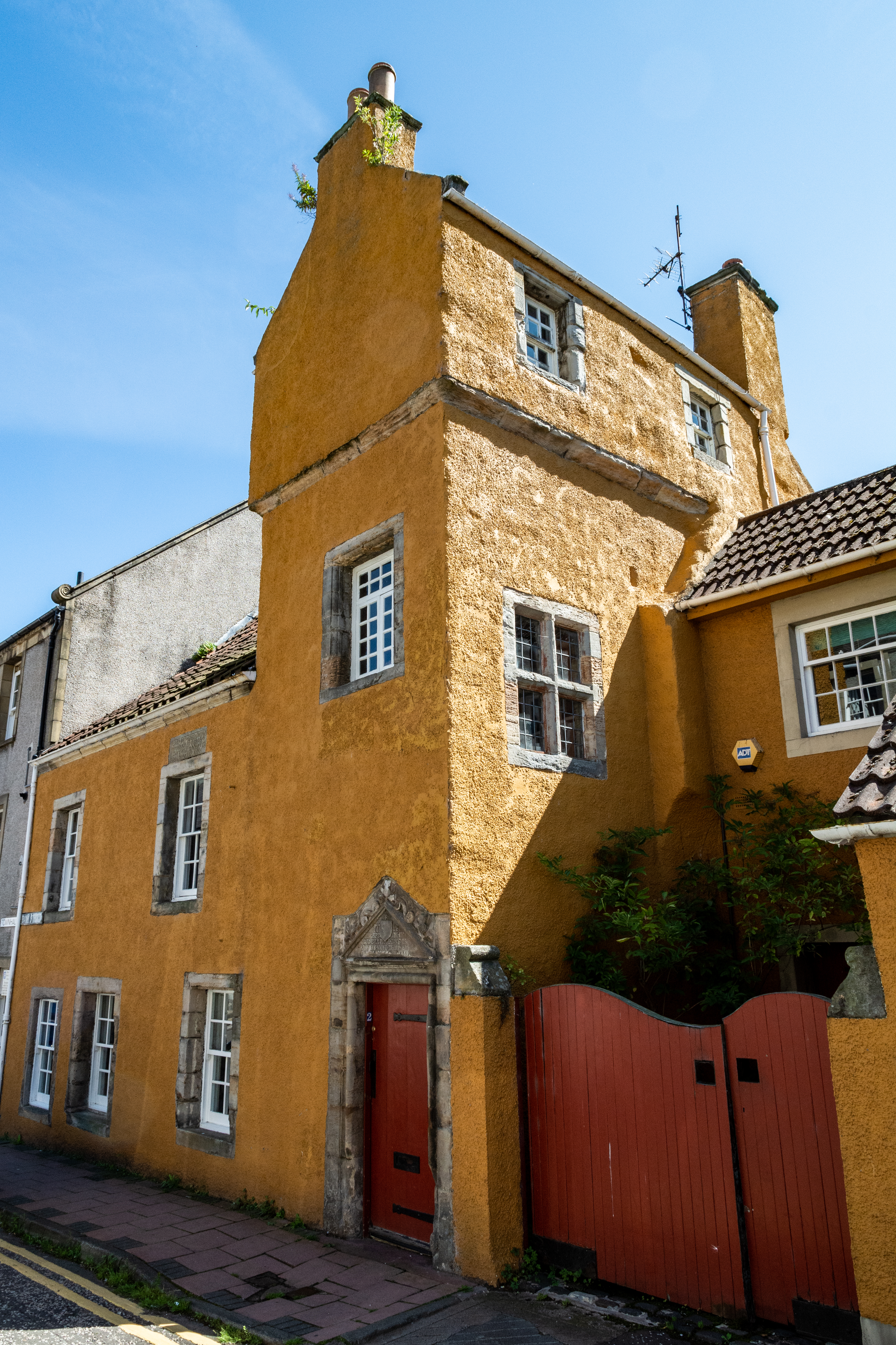 Thomsoun's House, a 17th-century listed building in Inverkeithing, Fife, Scotland